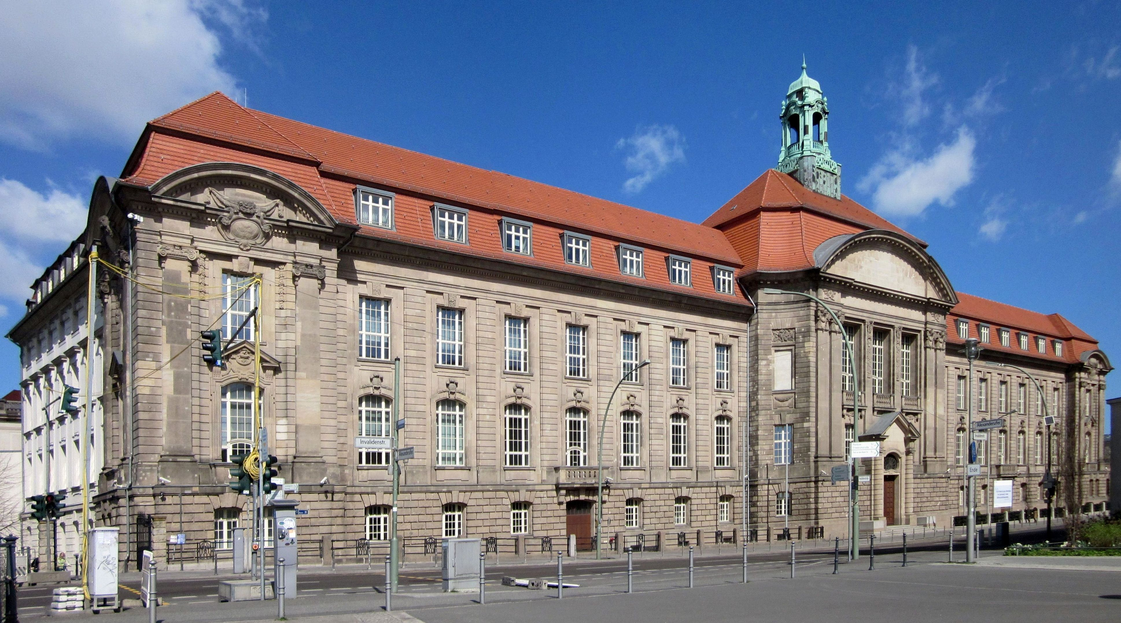 Main building of the German Federal Ministry for Economic Affairs and Energy at Invalidenstraße No. 47-48 in Berlin-Mitte. It was built from 1905 to 1910 to a design by the architects Cremer & Wolffenstein as Emperor Wilhelm Institute for Military Science Affairs. It has been designated as a historic landmark.